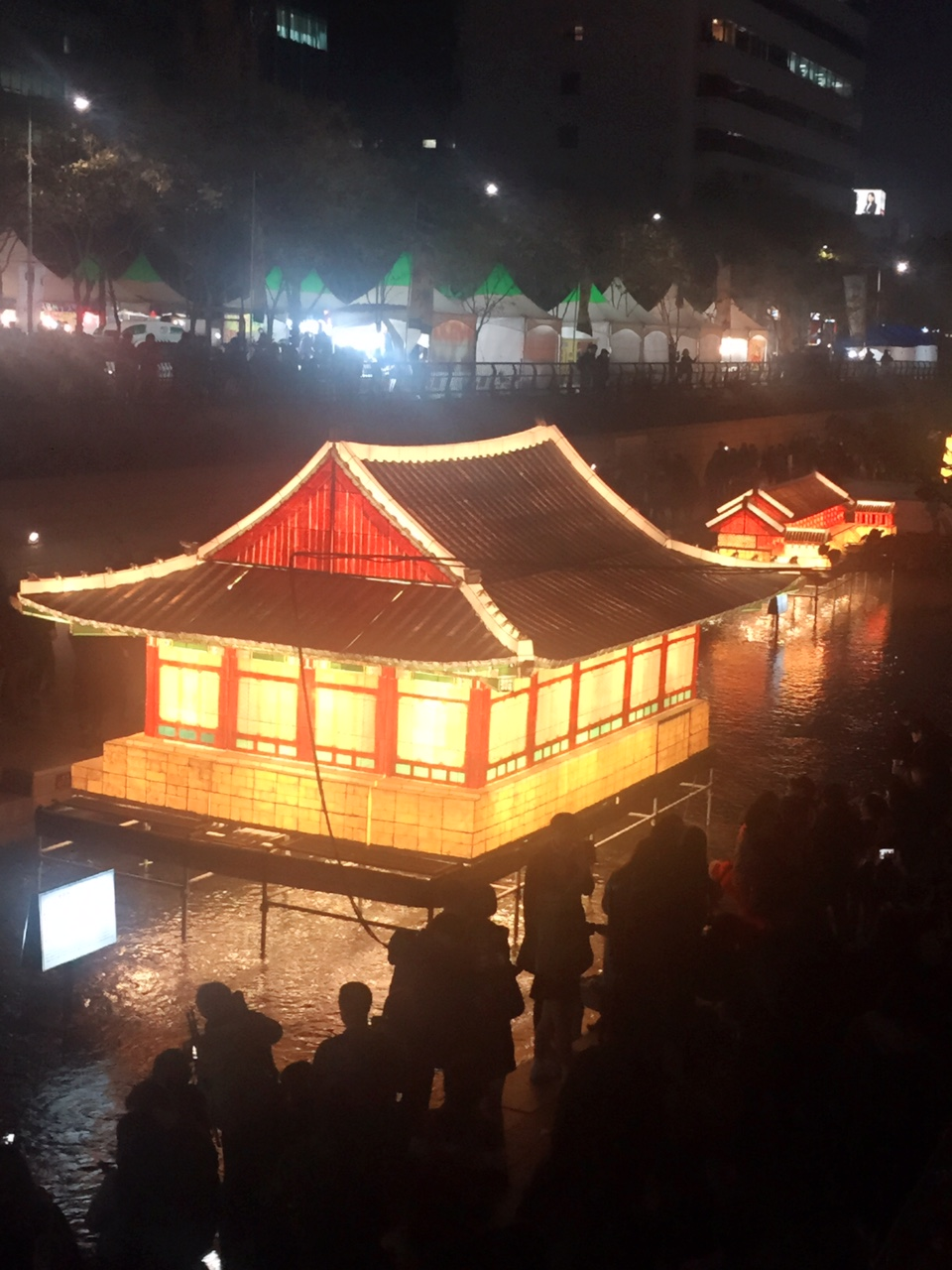 Seoul Lantern Festival 2015